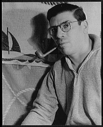 Title: Portrait of Paul Gallico Abstract/medium: 1 photographic print : gelatin silver.